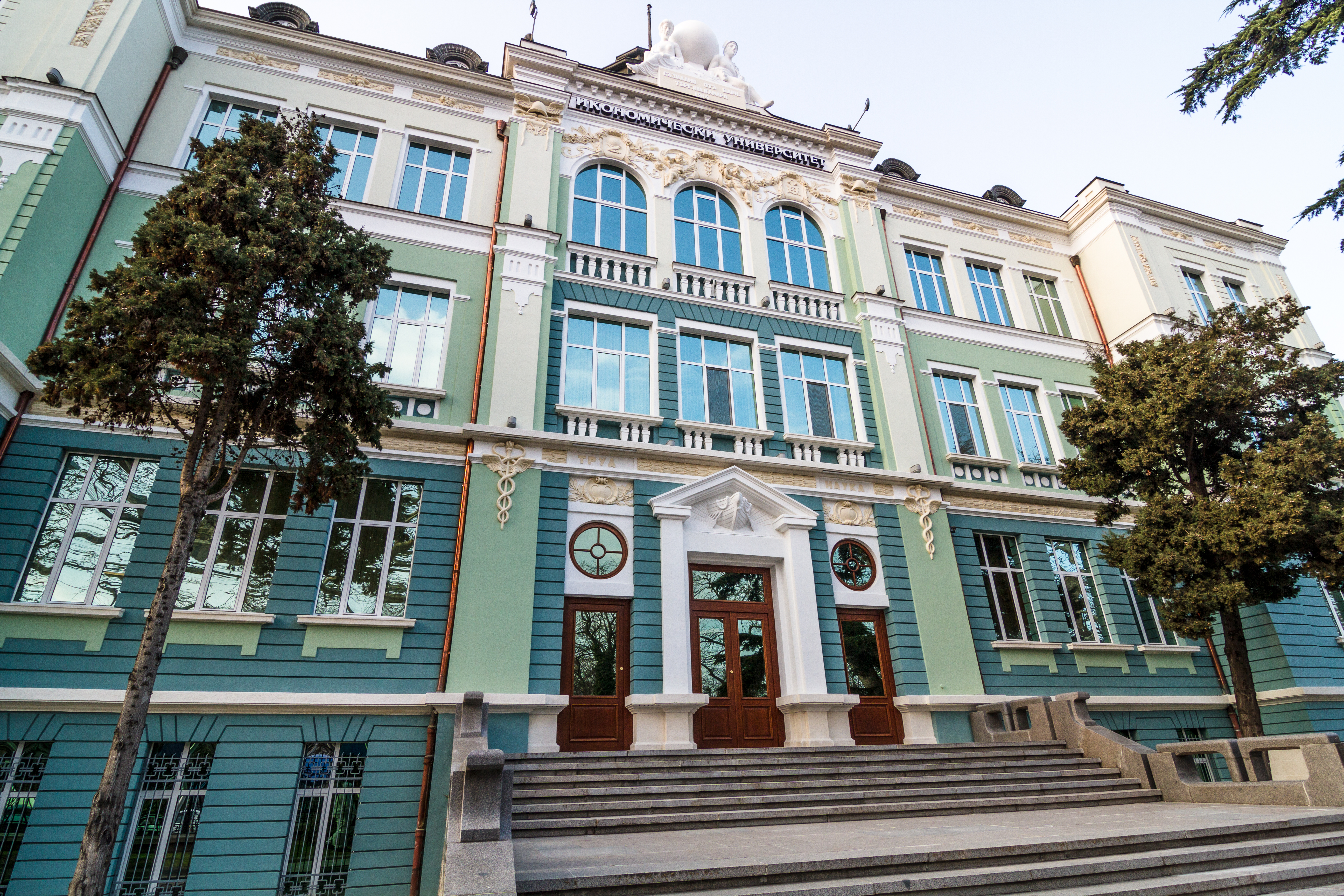 UE-Varna